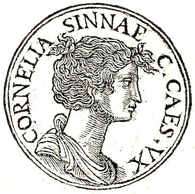 Cornelia Cinna Minor daughter of Lucius Cornelius Cinna, and a sister to suffect consul Lucius Cornelius Cinna, was married to Gaius Julius Caesar, who would become one of Rome's greatest conquerors and its dictator.